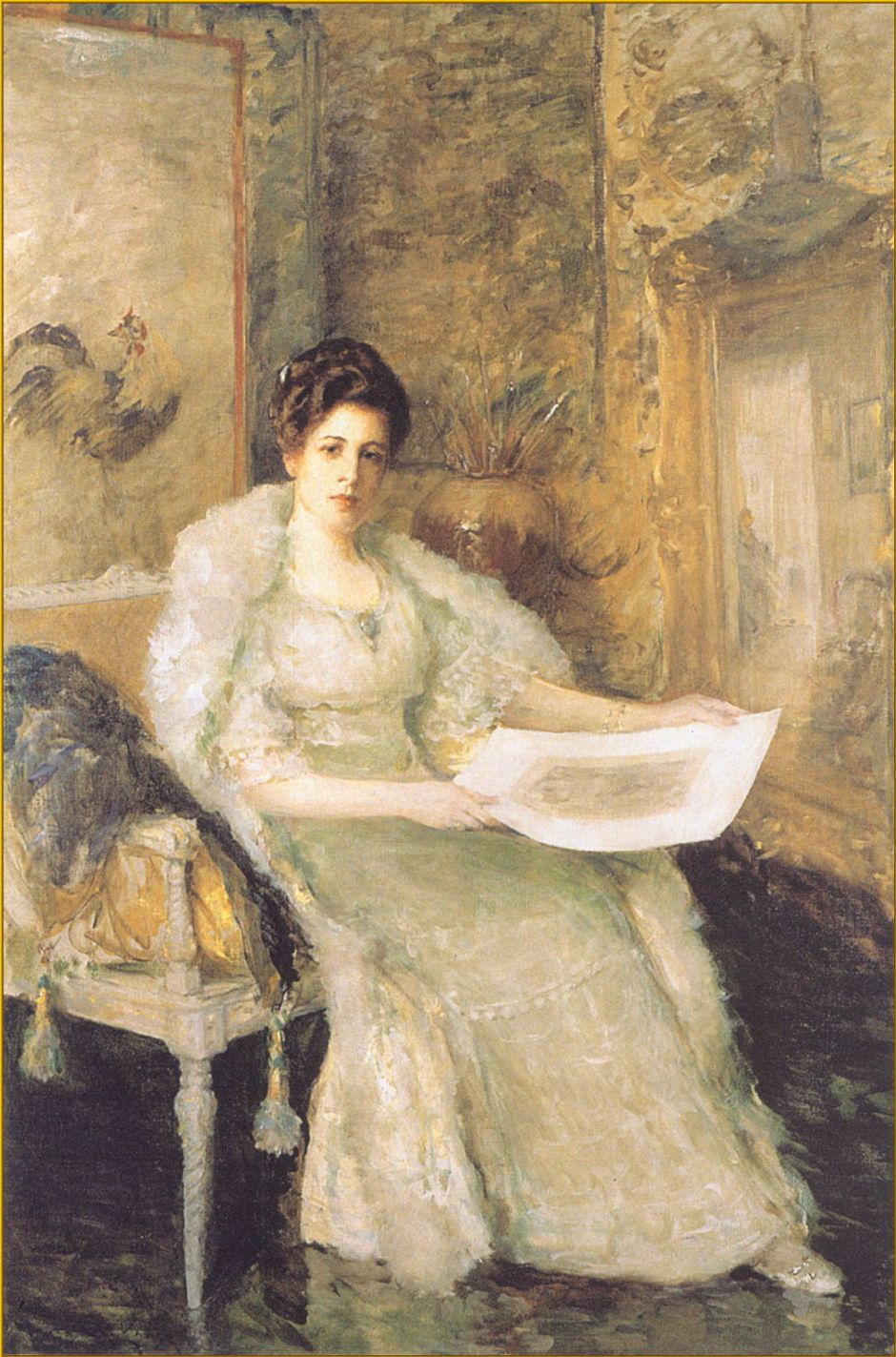 William Merritt Chase instructed Susan Watkins in New York City. He later became her relative by marriage. He painted this large portrait after her death as a memorial to his former student, friend, and relative.